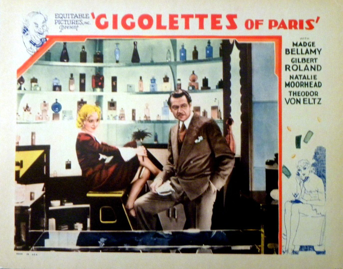 Lobby card for the American drama film The Gigolettes of Paris (1933).